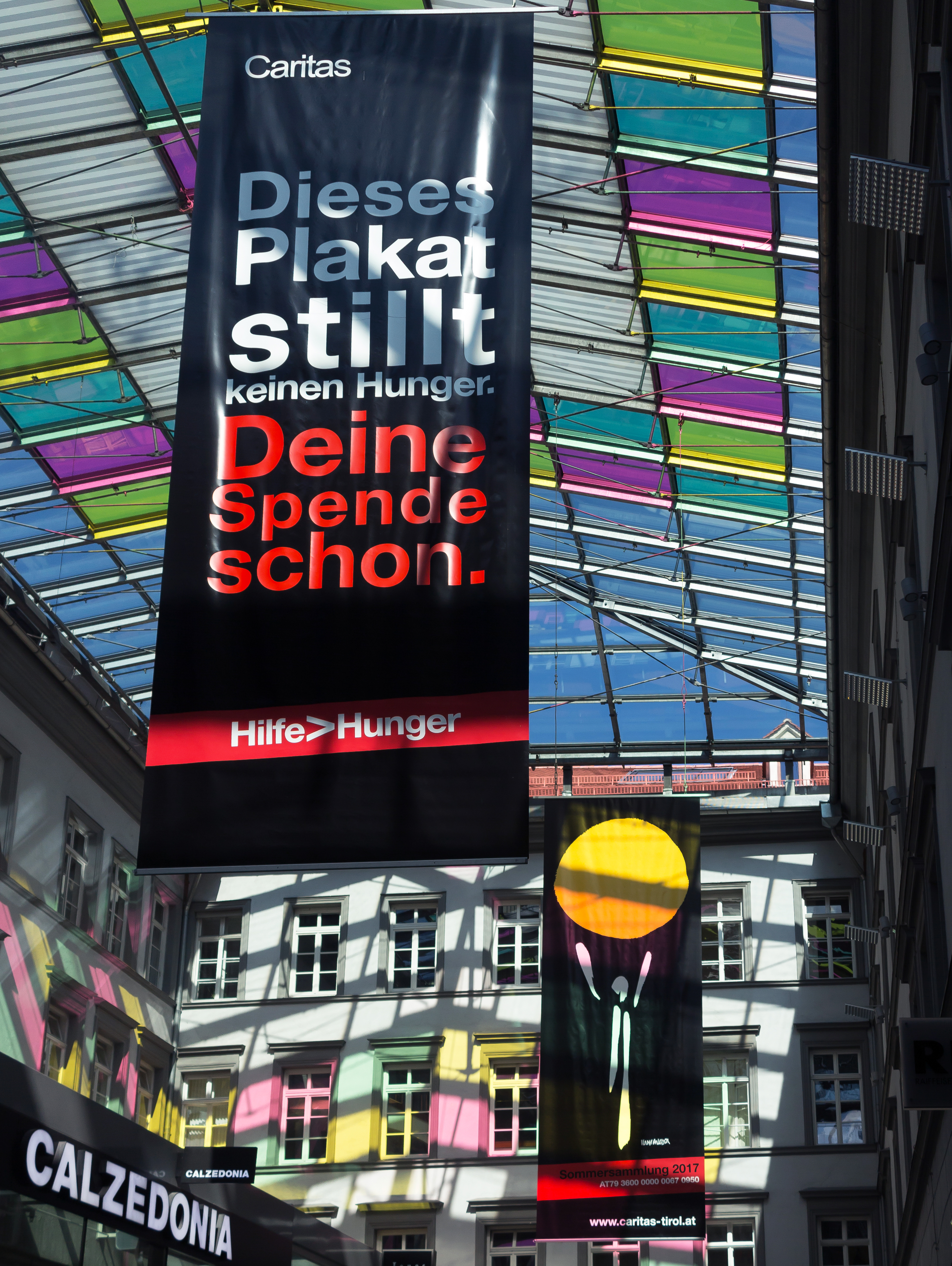 Innsbruck binnen Rathaus Galerien, This poster does not fill your stomac